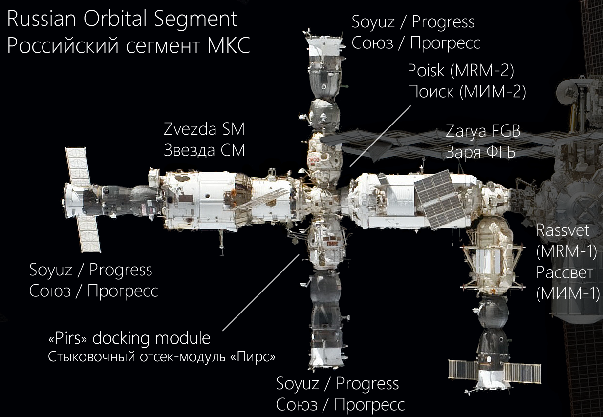 Layout of the Russian orbital segment of the International Space Station overlaid in English and Russian